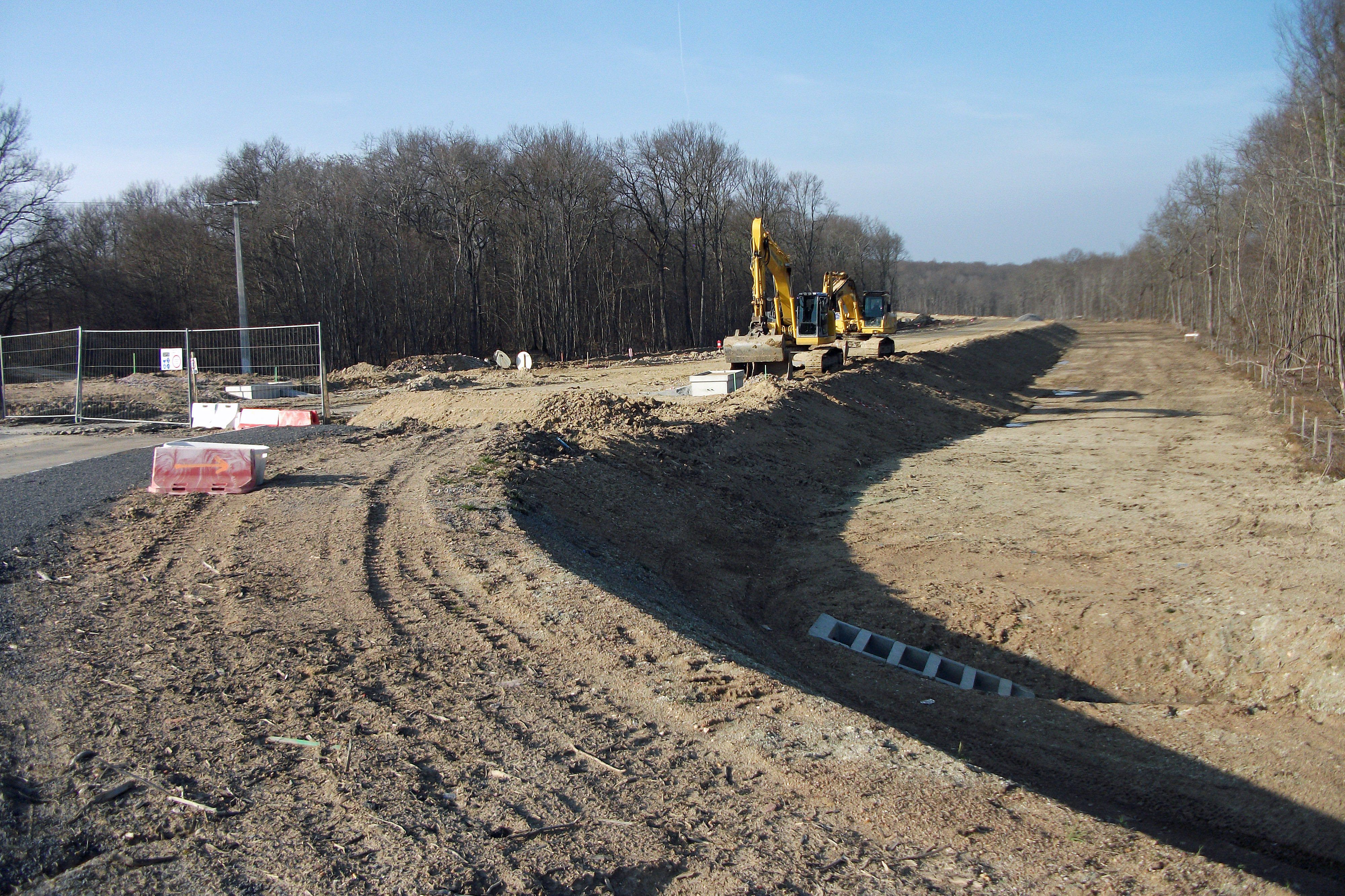 End of A719 autoroute under construction in Espinasse-Vozelle, Allier, Auvergne, France.